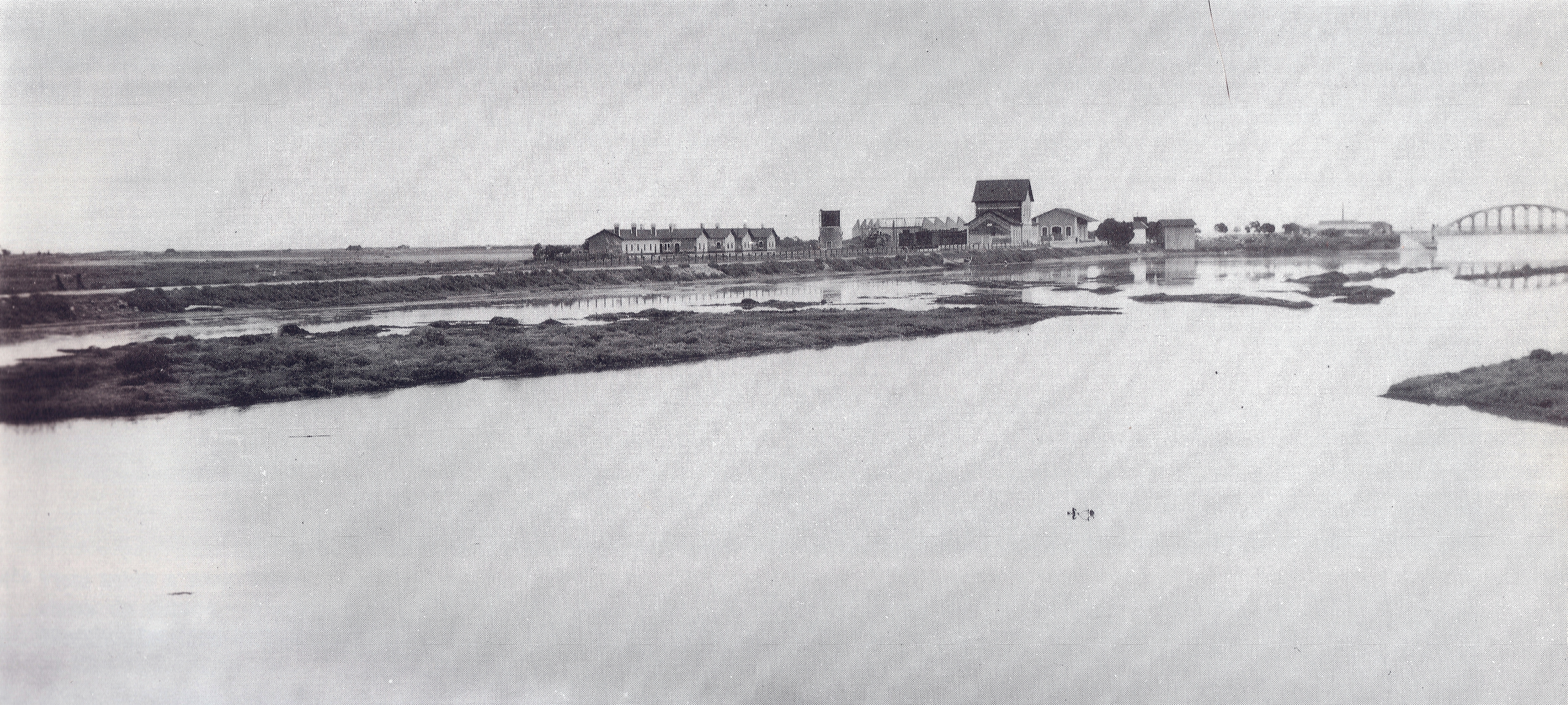 Lagos Railway Station, in Portugal, in the 1920s.